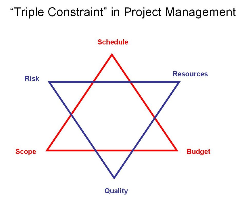 Triple Constraint Image